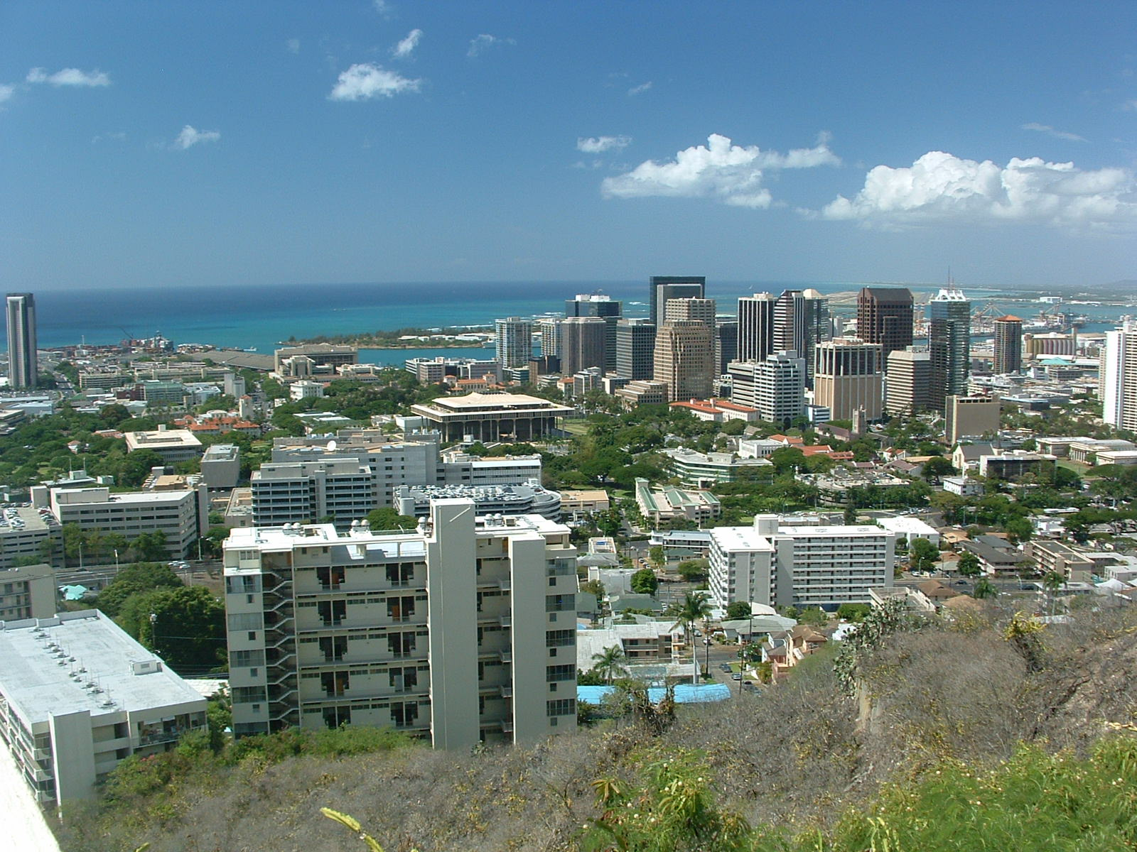 Downtown Honolulu